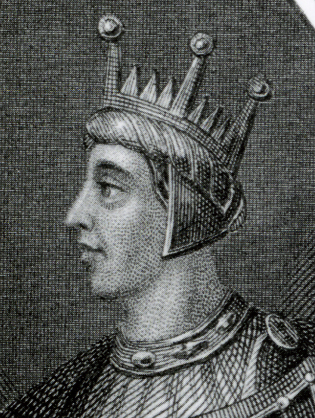 Edred, c.923-55, by unknown engraver after unknown artist. Detail of line engraving, trimmed down. National Portrait Gallery (RN4947). National Portrait Gallery: NPG D8113 While Commons policy accepts the use of this media, one or more third parties have made copyright claims against Wikimedia Commons in relation to the work from which this is sourced or a purely mechanical reproduction thereof. This may be due to recognition of the "sweat of the brow" doctrine, allowing works to be eligible for protection through skill and labour, and not purely by originality as is the case in the United States (where this website is hosted). These claims may or may not be valid in all jurisdictions. As such, use of this image in the jurisdiction of the claimant or other countries may be regarded as copyright infringement. Please see Commons:When to use the PD-Art tag for more information. See User:Dcoetzee/NPG legal threat for original threat and National Portrait Gallery and Wikimedia Foundation copyright dispute for more information. This tag does not indicate the copyright status of the attached work. A normal copyright tag is still required. See Commons:Licensing for more information. .